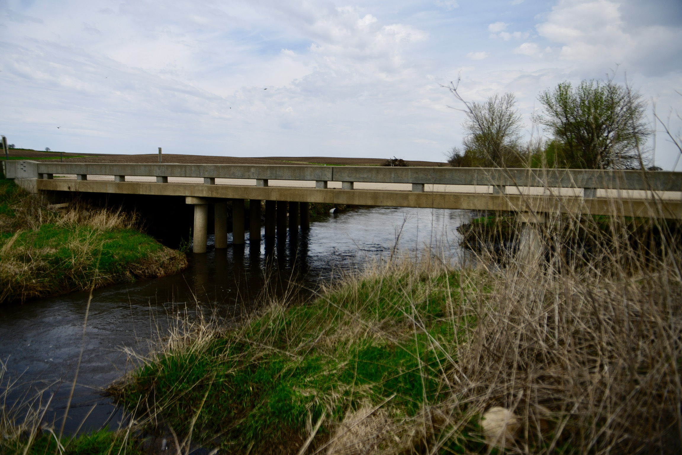 Big Creek Bridge. This is the 2004 replacement for the historic bridge completed in 1916.